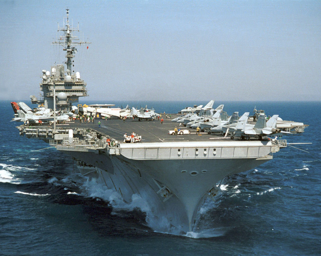 The U.S. Navy aircraft carrier USS Kitty Hawk (CV-63) underway, circa 1999-2001, with Carrier Air Wing 5 (CVW-5) aboard.